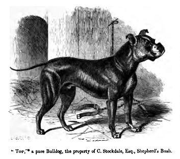 “ "Top", a pure Bulldog, the property of C. Stockdule, Esq., Shepherd's Bush.” An Old English Bulldog, extinct dog breed. 1859.